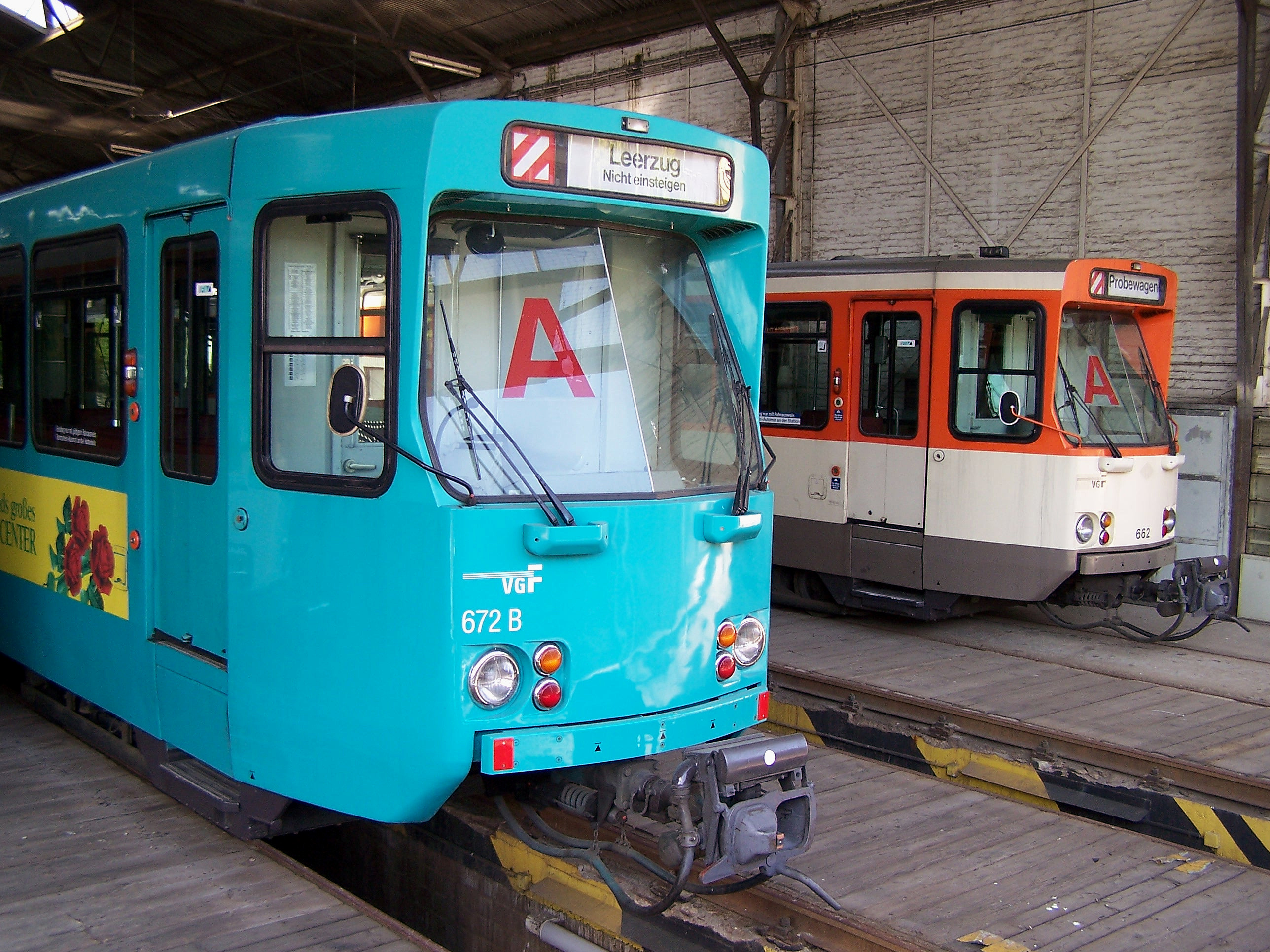 Tram Depot Frankfurt-Eckenheim with retired Pt-railcars, April 2007